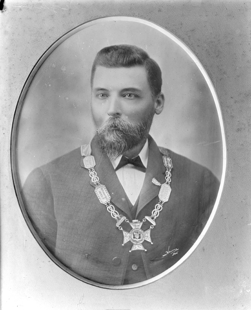 1/4 length portrait of Mr Peter Dignan, Mayor of Auckland from 1897-98, in an oval mount, with beard and moustache, wearing a dark coloured jacket, light coloured shirt and tie, mayoral chains